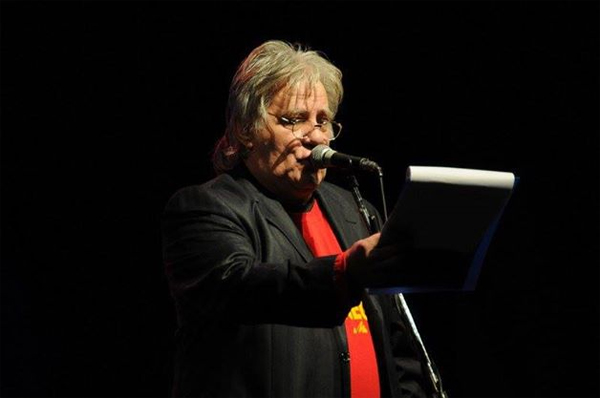 Marinko Pavićević's recital - Montenegrin National Theater